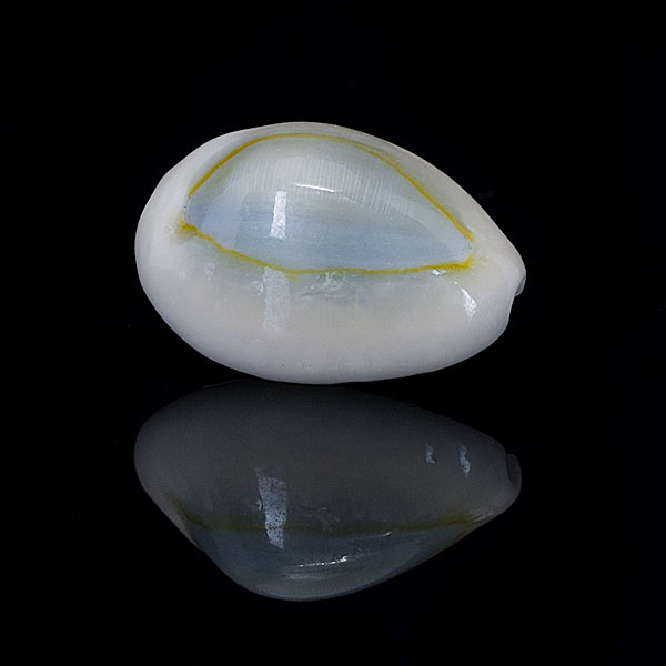 Monetaria annulus